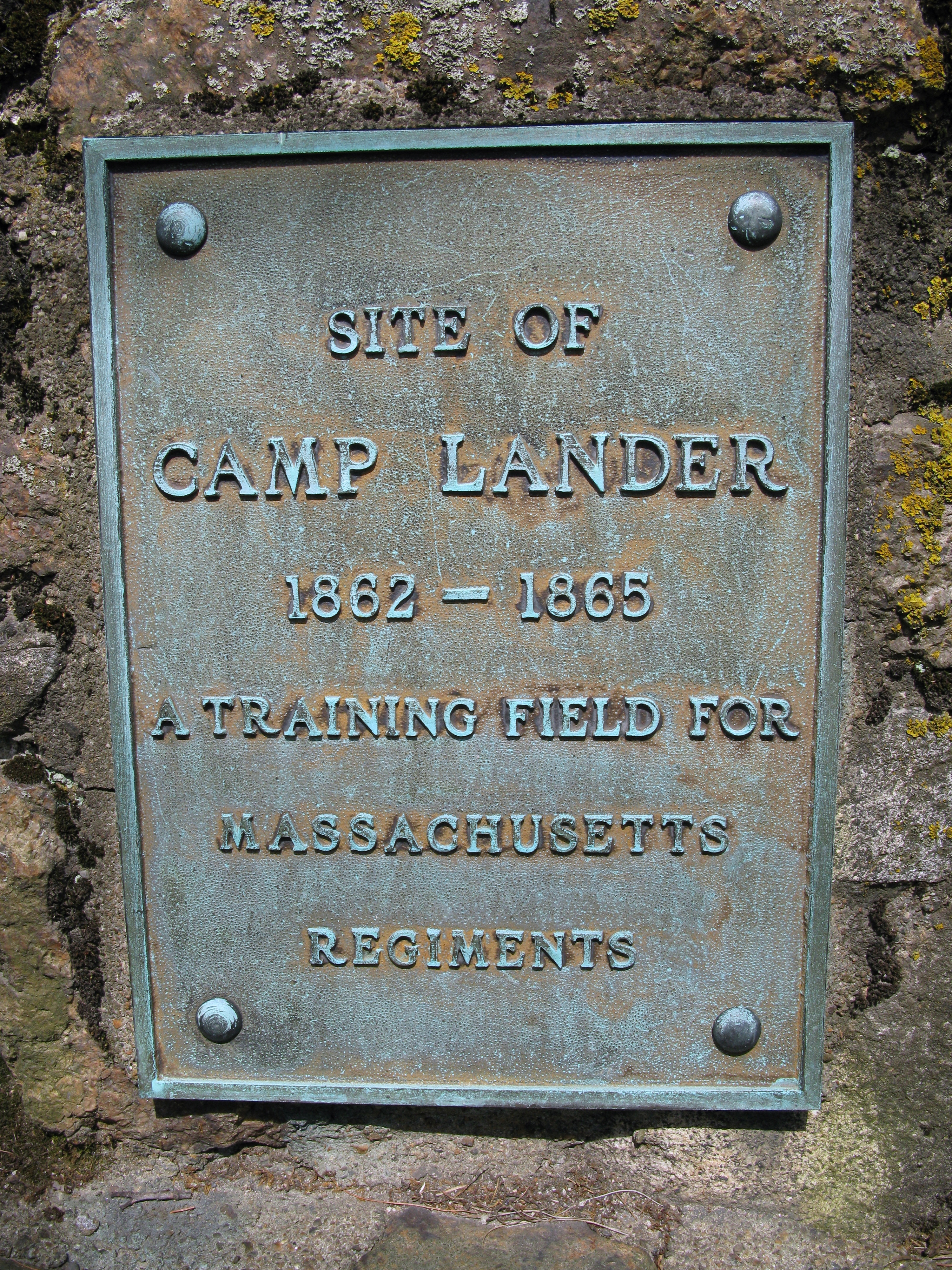 Camp Lander marker on the stone wall at Pingree Parker "Site of Camp Lander 1862-1865 A Training Field For Massachusetts Residents"